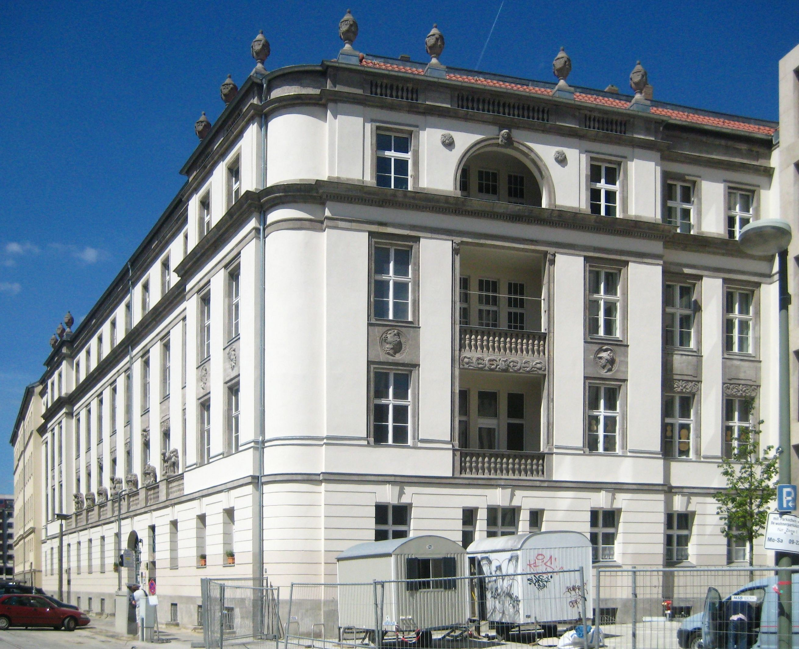 Former residential building for public servants of the royal theaters at Plackstraße No. 20 in Berlin-Mitte, constructed 1914 to 1915. The four-story, three-wing building with spacious apartments encloses an inner yard. The facade has a Neoclassical structure and neo-baroque ornaments. The building is landmarked.